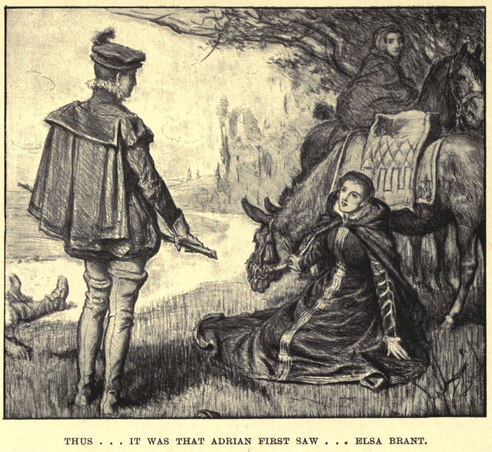 An illustration by G.P. Jacomb Hood ("Lysbeth" by H.R. Haggard, 1901 edition)